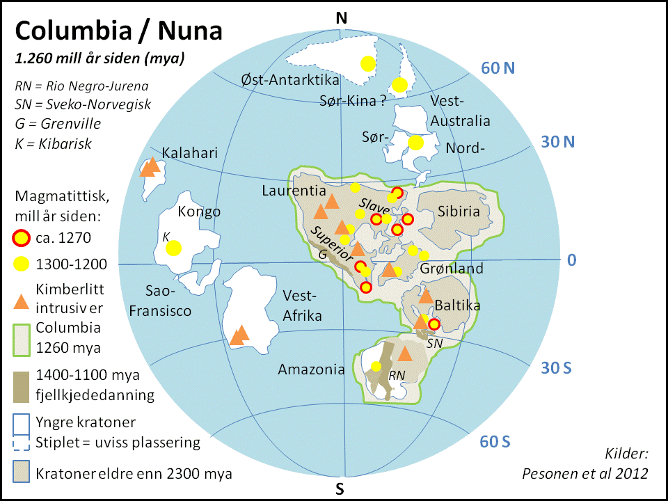 Paleogeographic globe in the Norwegian løanguage, made for Wikipedia use at PowerPoint software.